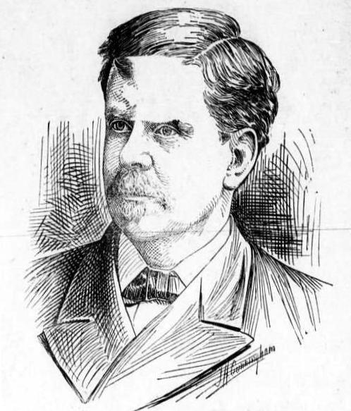 Congressman Walter P. Brownlow (1851–1910) of the U.S. state of Tennessee.